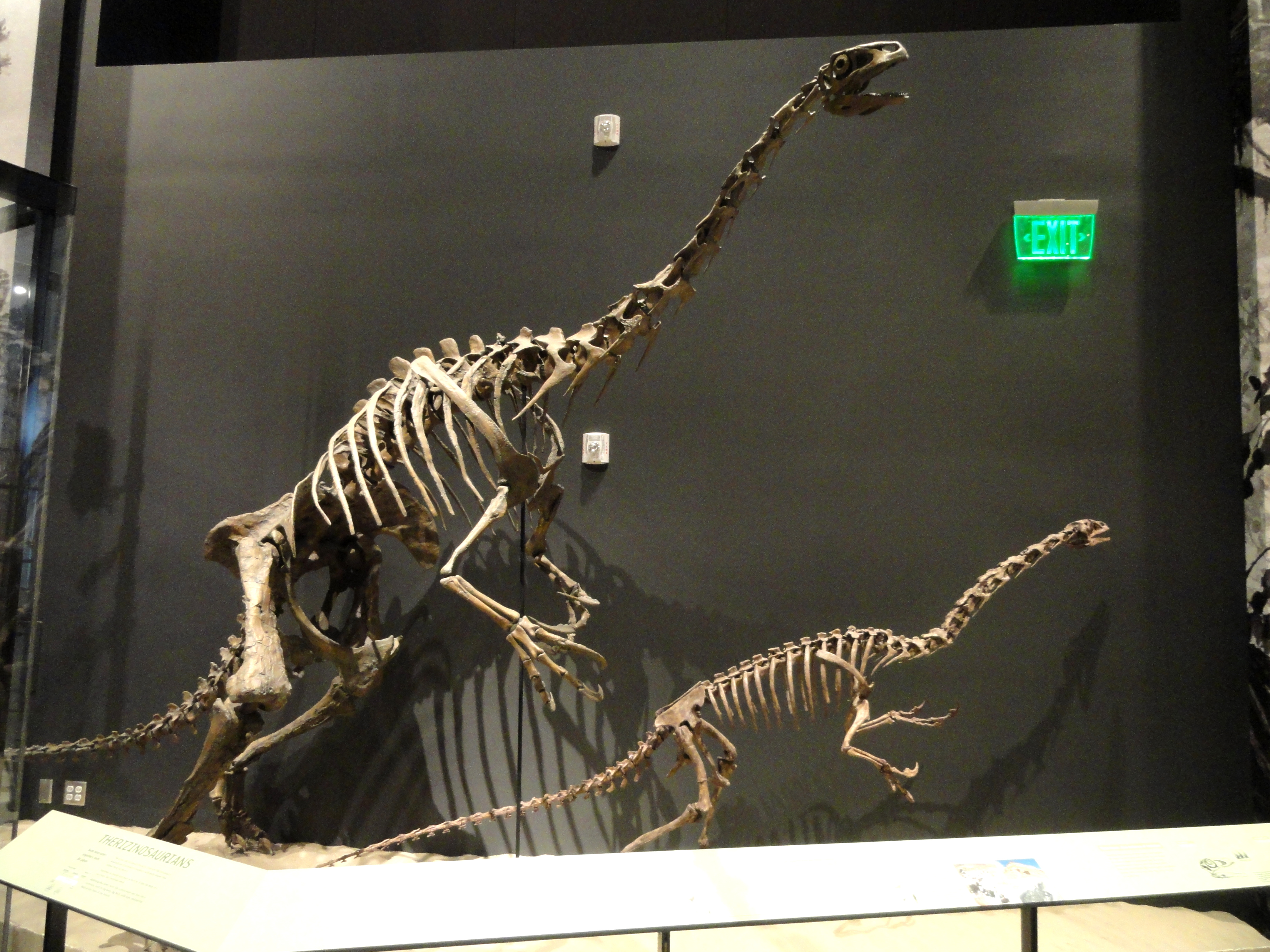 Fossil specimen in the Natural History Museum of Utah, Salt Lake City, Utah, USA.